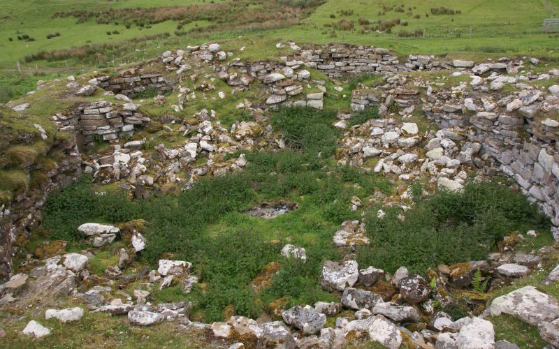 Cinn Trolla Broch, Sutherland, Scotland